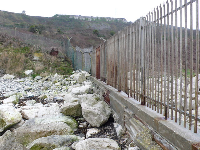 Kings Pier, Portland Kings Pier is now not much of a pier, a breakwater sticks out into Weymouth bay with a fence on it to keep people out of the naval base. This is the view west from the breakwater up towards the cliffs, on top of which is the Verne Prison